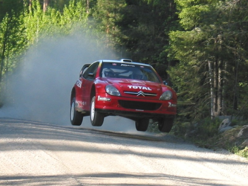 Citroën World Rally Team with their drivers Sébastien Loeb and Thomas Rådström testing in Finland in May, 2002.